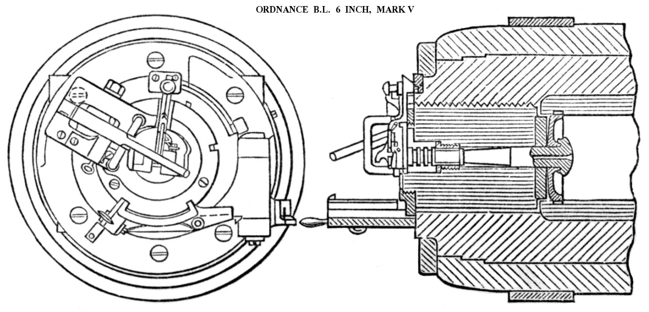 Diagram of Breech mechanism of British BL 6 inch gun Mk V. This shows the Elswick cup obturation system.